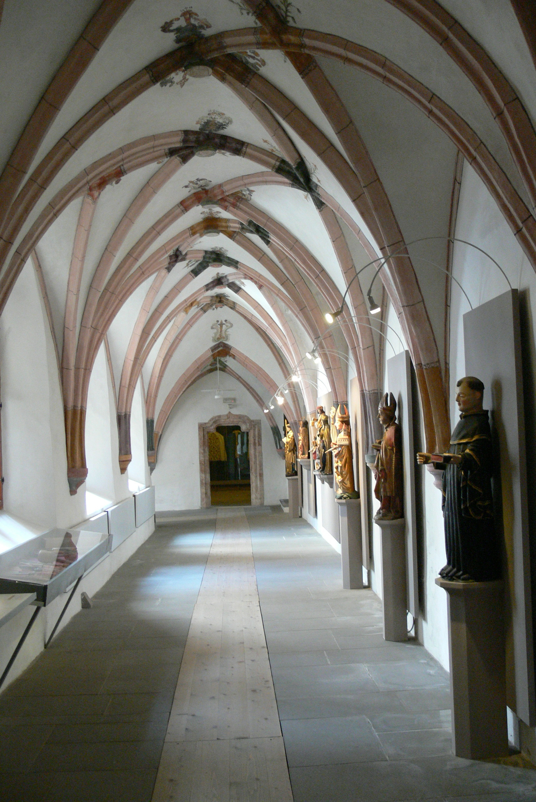 Rattenberg (Tyrol). Saint Augustine monastery - Cloisters ( 15th century ).